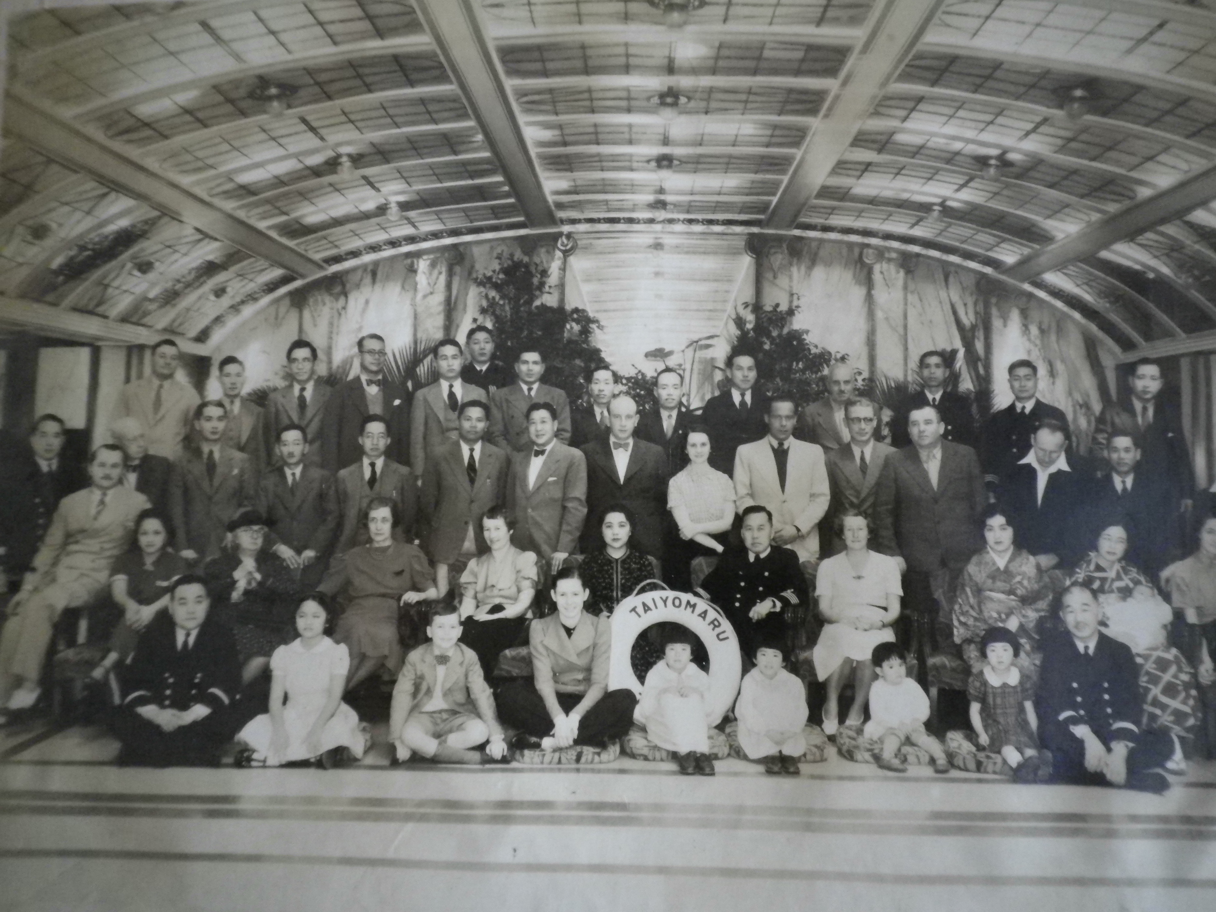 Group photo in the interior of the NYK Line ship Taiyo Maru, taken in 1938